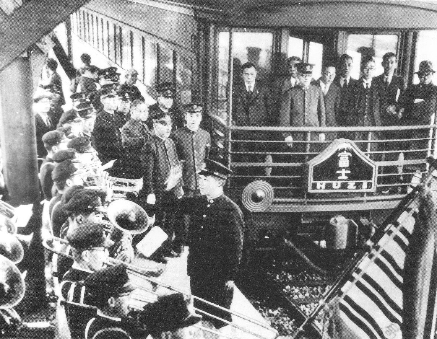 "Fuji" in Moji Station (November 15, 1942).